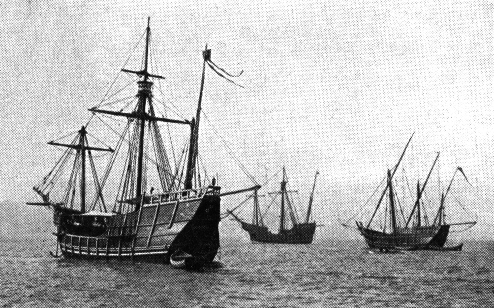 Replicas of the Caravels Pinta, Niña and the carrack Santa Maria. Lying in the North River, New York. The two caravels and the carrack which crossed from Spain to be present at the World's Fair at Chicago.